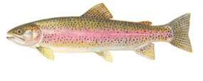 Rainbow Trout, Oncorhynchus mykiss